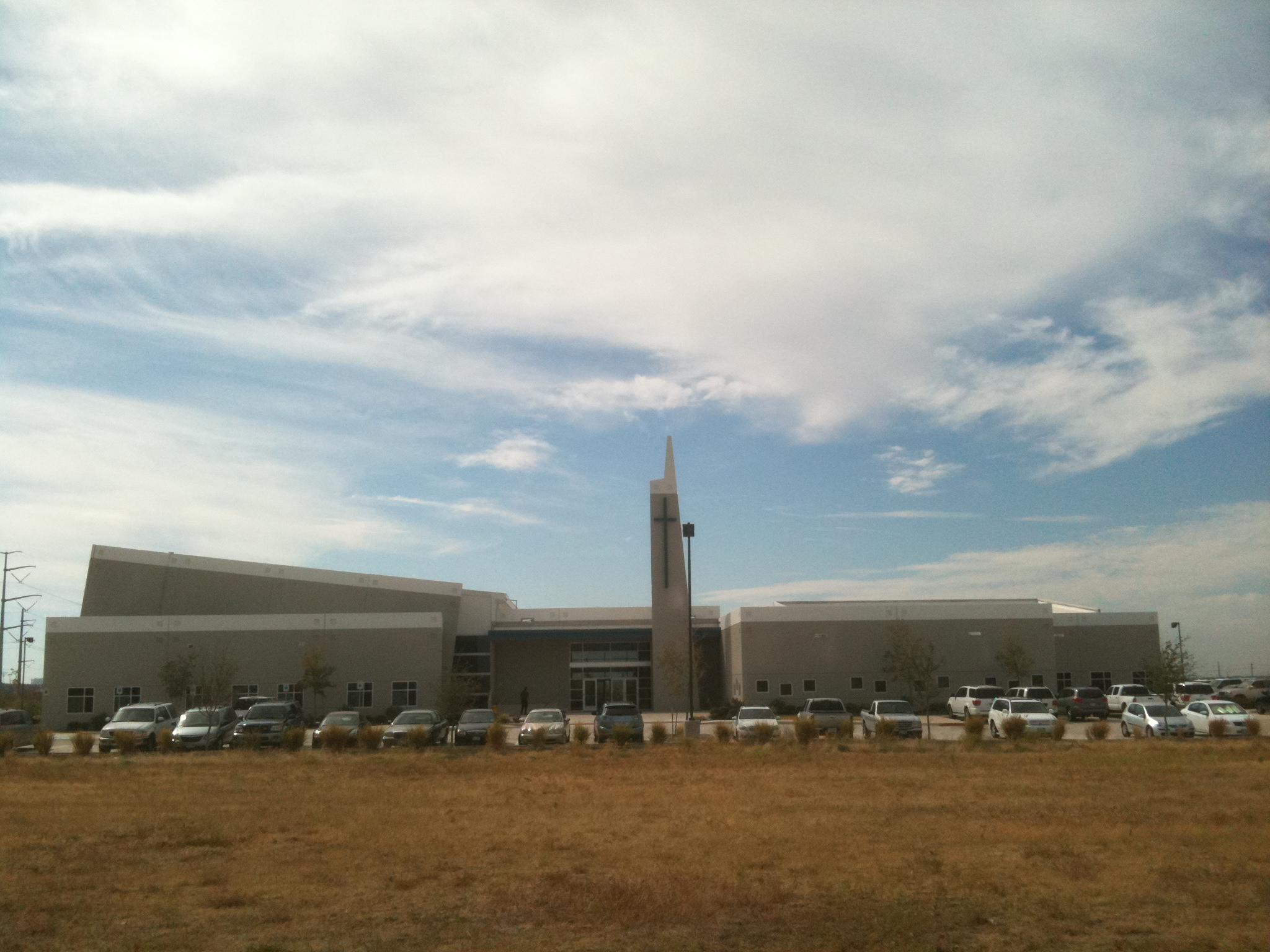 Gateway Church Frisco Campus in Dallas/Fort Worth, Texas